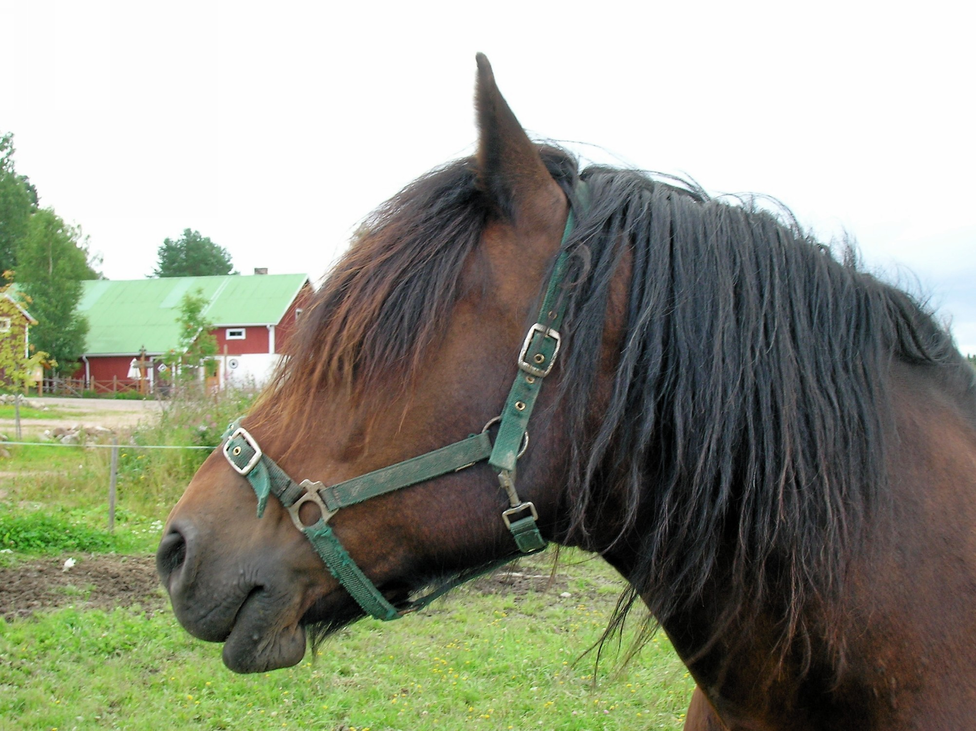 A North Swedish gelding